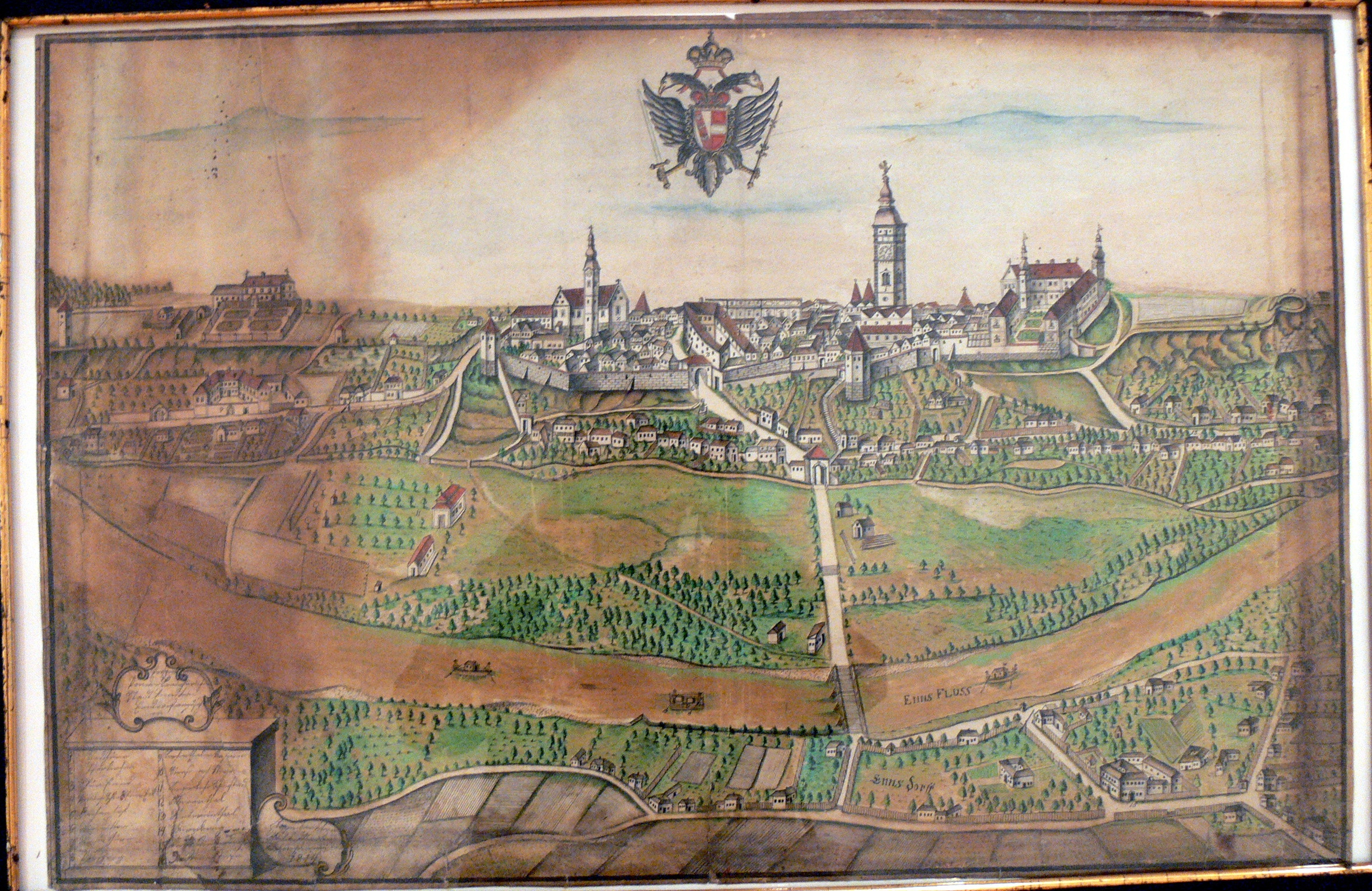 Enns ( Upper Austria ). Museum Lauriacum: View of Enns from the east ( 1814 ); coloured drawing.